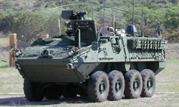 Stryker Infantry Carrier Vehicle (M1126)